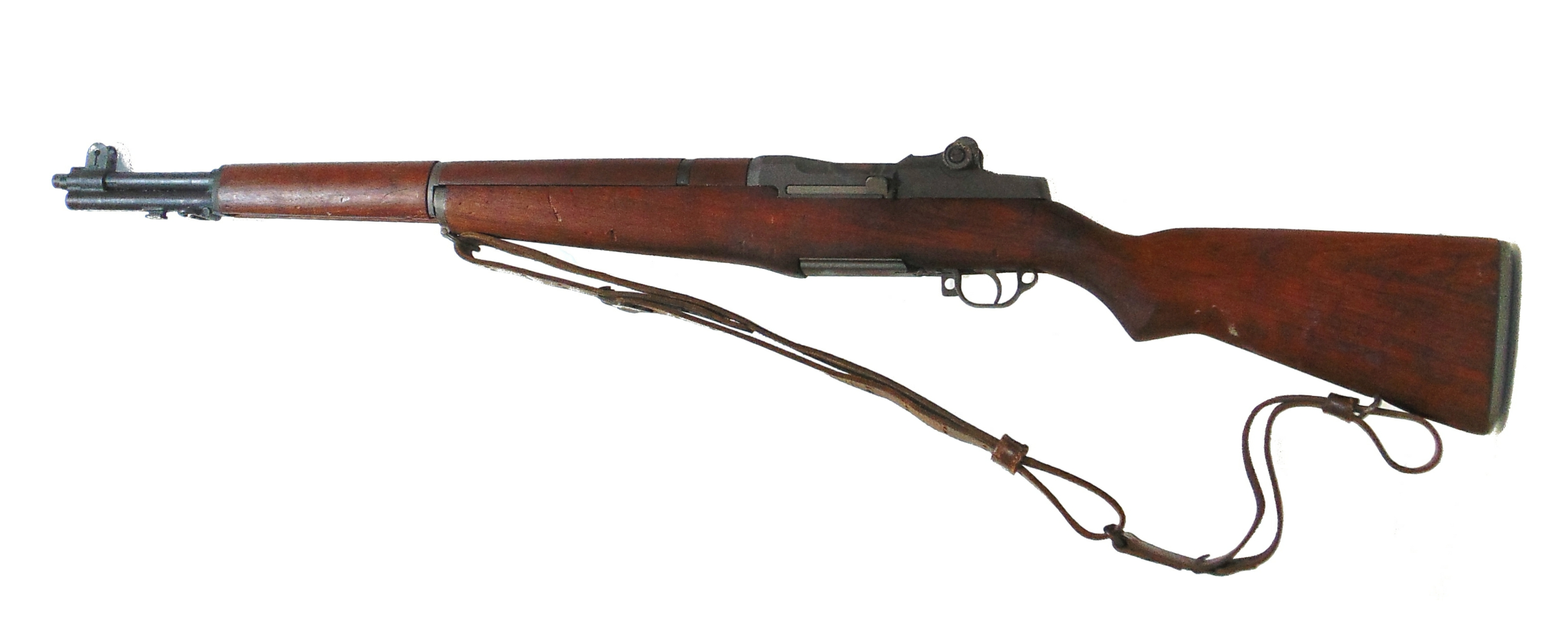 The M1 Garand was the standard service rifle for all U.S. forces during the Second World War. It was the first semi-automatic rifle to be employed on a large scale. Semi-automatic means that the weapon does not have to be manualy reloaded after each shot. Instead, the mechanism of the rifle does this automatically as long as there are rounds in the magazine. This meant that more shots could be fired in a shorter period of time; a major advantage on the battlefield. Photographed in the collection of the National Liberation Museum 1944-1945.